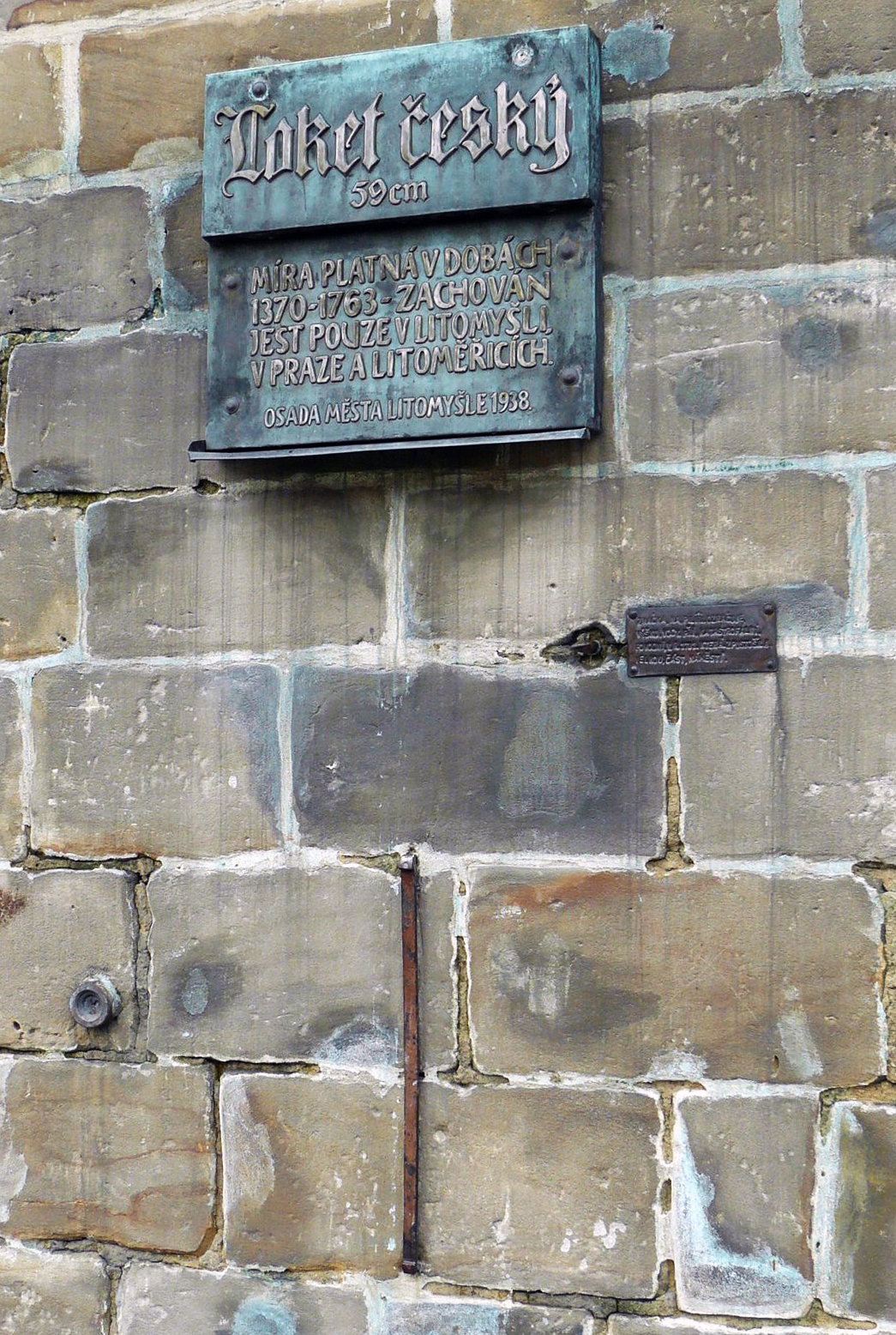 Czech Ell - Litomysl, City Hall.